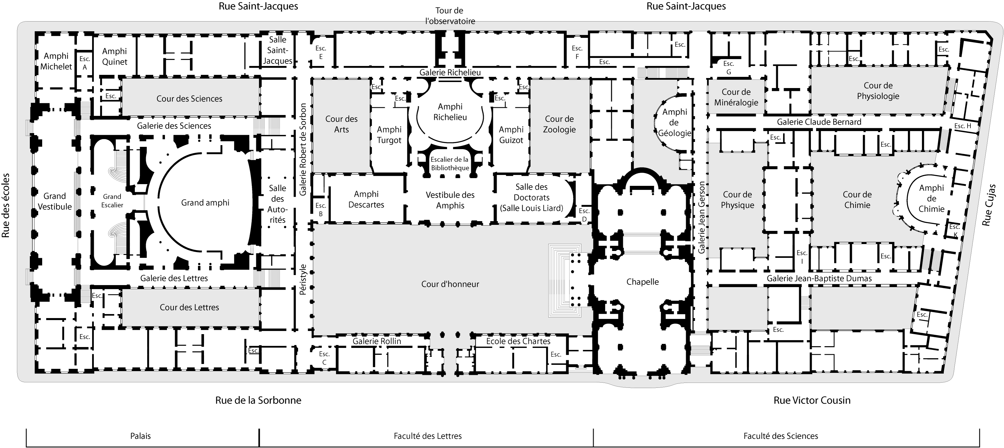 groundplan of the sorbonne building - 1900